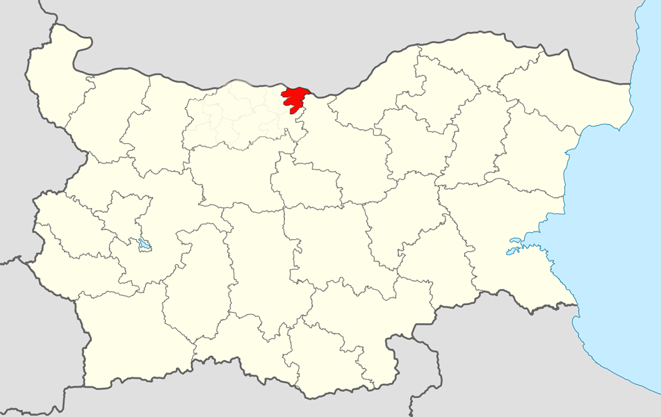 Location map of Belene Municipality within Pleven Province, Bulgaria. Equirectangular projection, N/S stretching 130 %. Geographic limits of the map: N: 44.4° N S: 41.1° N W: 22.1° E E: 28.9° E